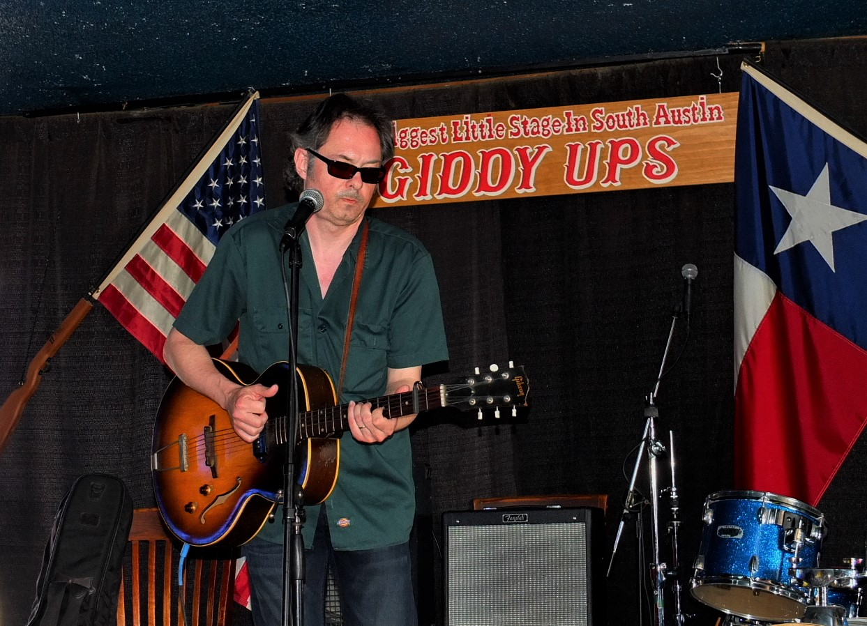 Kevin Gordon at Giddy Ups in Austin, TX during SXSW 2013. Photo - Ron Baker.